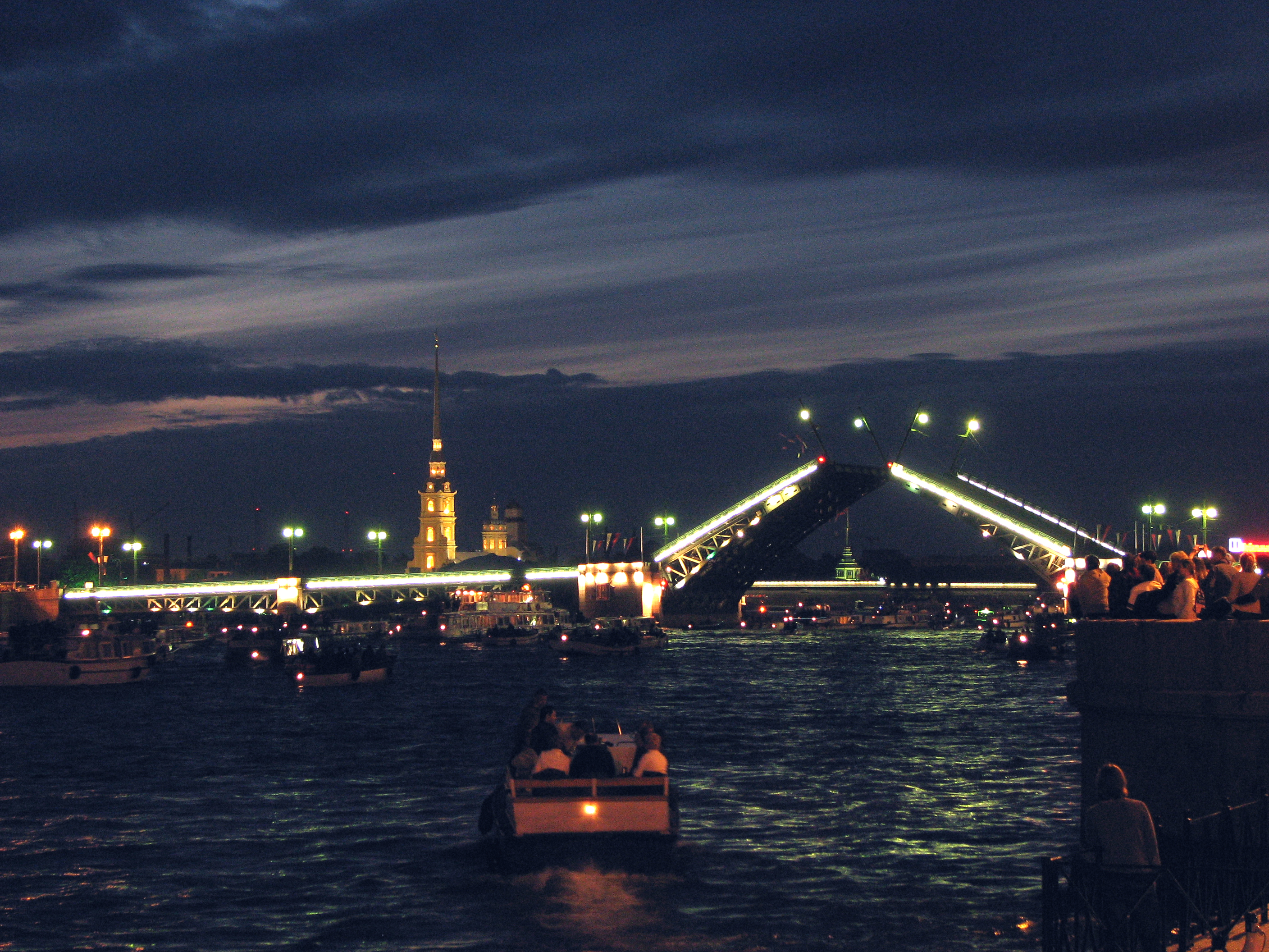 Saint Petersburg. White nights. The Dvortsoviy (Palace) bridge. Start of moving of bridge spans.